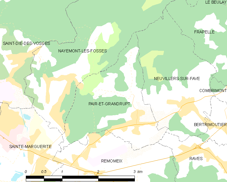 Map of French municipality Pair-et-Grandrupt